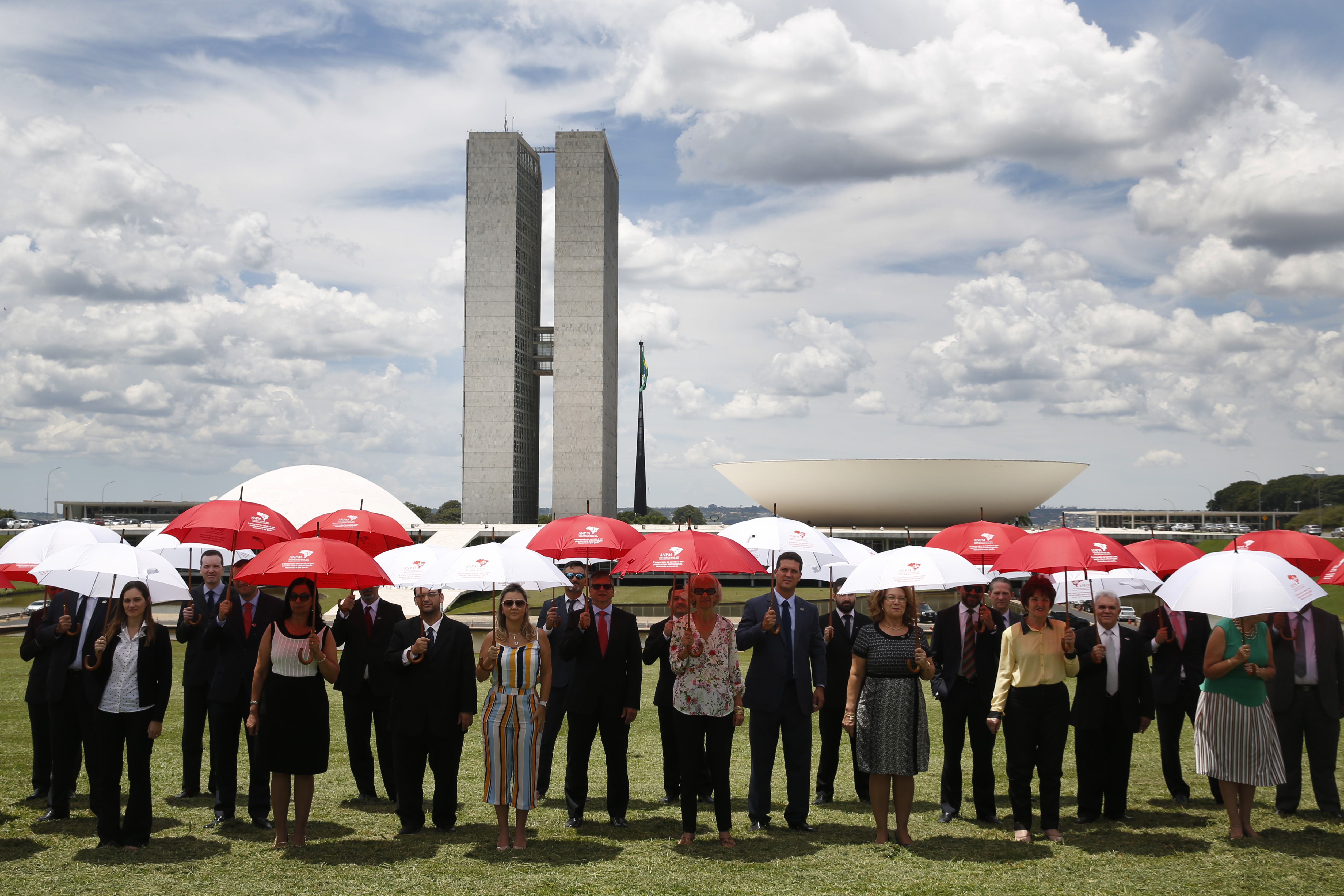 Guarda-chuvaço